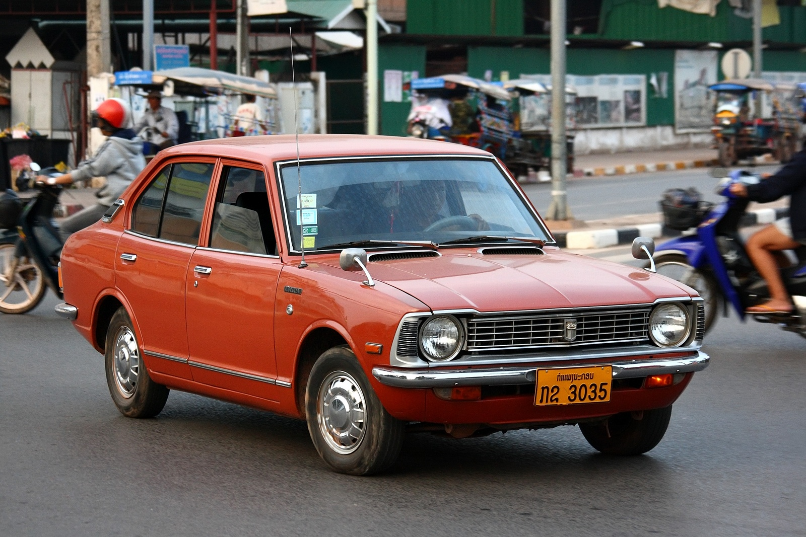 Toyota Corolla E20 in Vientiane, Laos